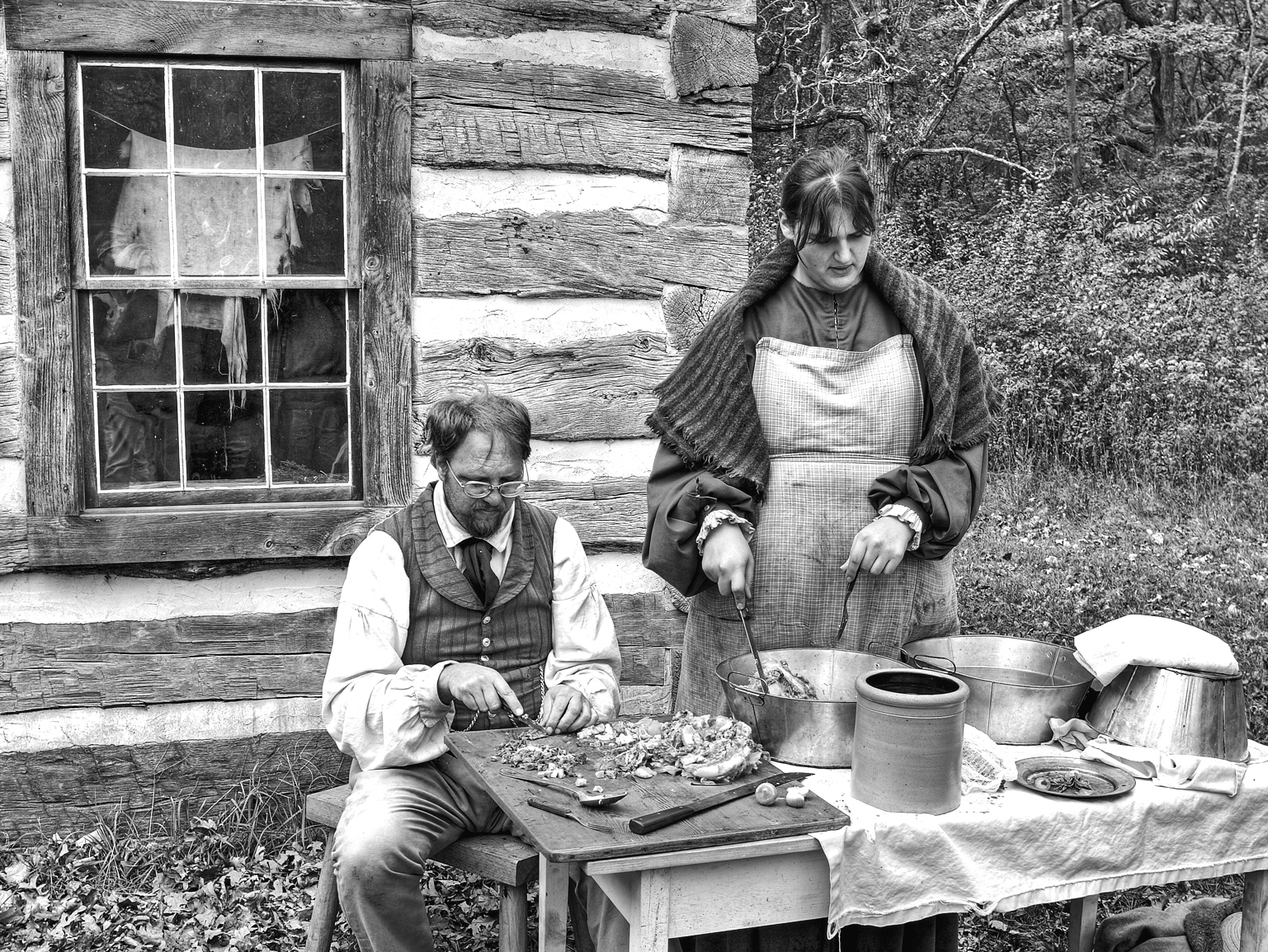 Re-enactment of immigrant couple making head cheese from a pig's head at Old World Wisconsin. PLEASE NOTE: THIS IS NOT AN HISTORICAL PHOTO, BUT WAS TAKEN IN 2006 AND PRESENTED IN BLACK AND WHITE TO SIMULATE AN HISTORICAL PHOTO By 1845, Norwegian immigrant Knudt Fossebrekke and his wife Gertrude were carving a farm out of the Rock County wilderness. The cabin represented a major accomplishment for Knudt Fossebrekke, who had immigrated with little more than his own abilities. He trapped and sold pelts to supplement farm income derived from growing wheat. The farm depicts the early years of Norwegian immigration to Wisconsin, when the first wave of immigrants began to flood into southern Wisconsin to take advantage of its fertile farmland.